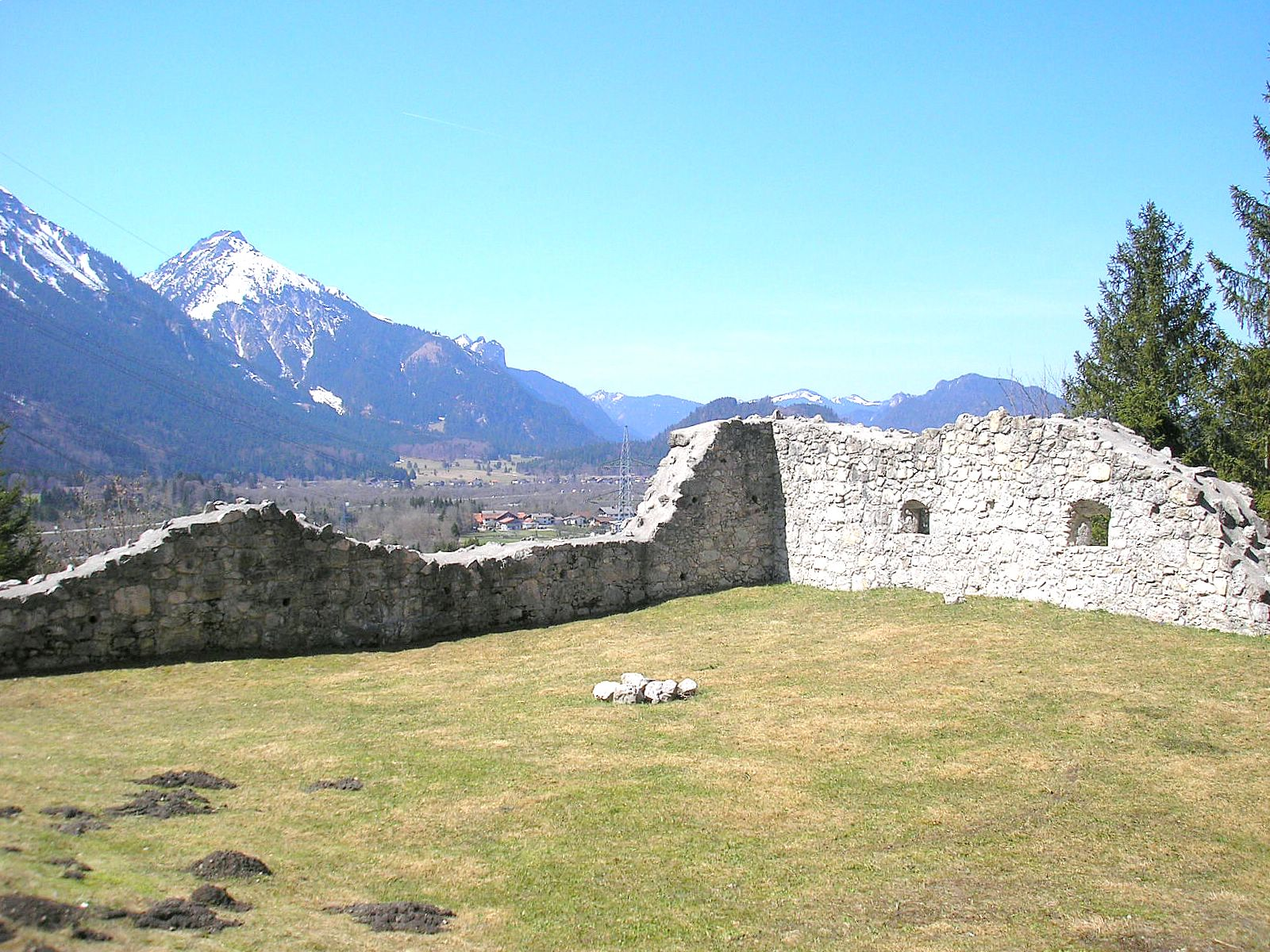 Fortification (Sternschanze) above the Kniepass (Bezirk Reutte, Tirol, Austria)